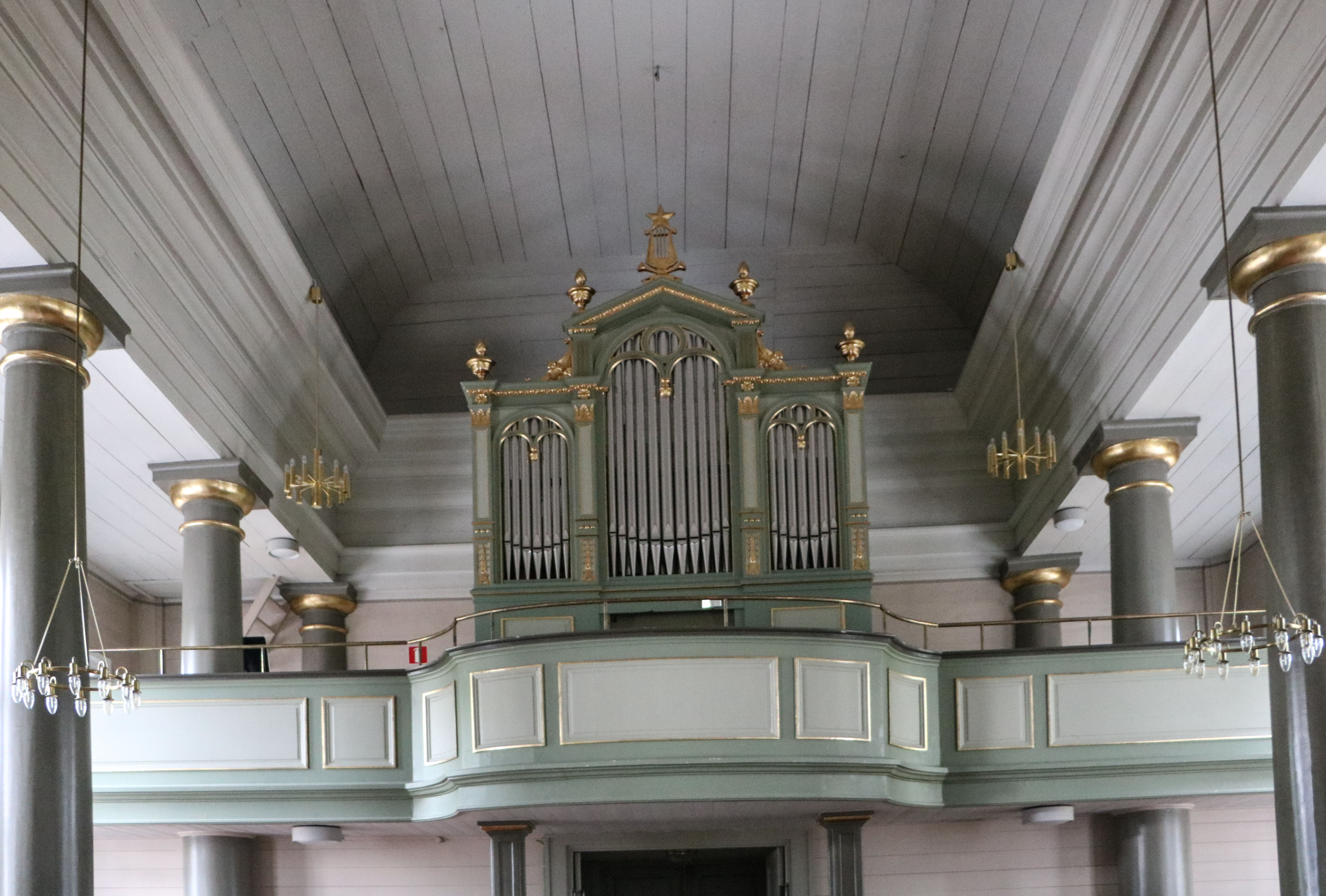 Backaryds Church.The organ